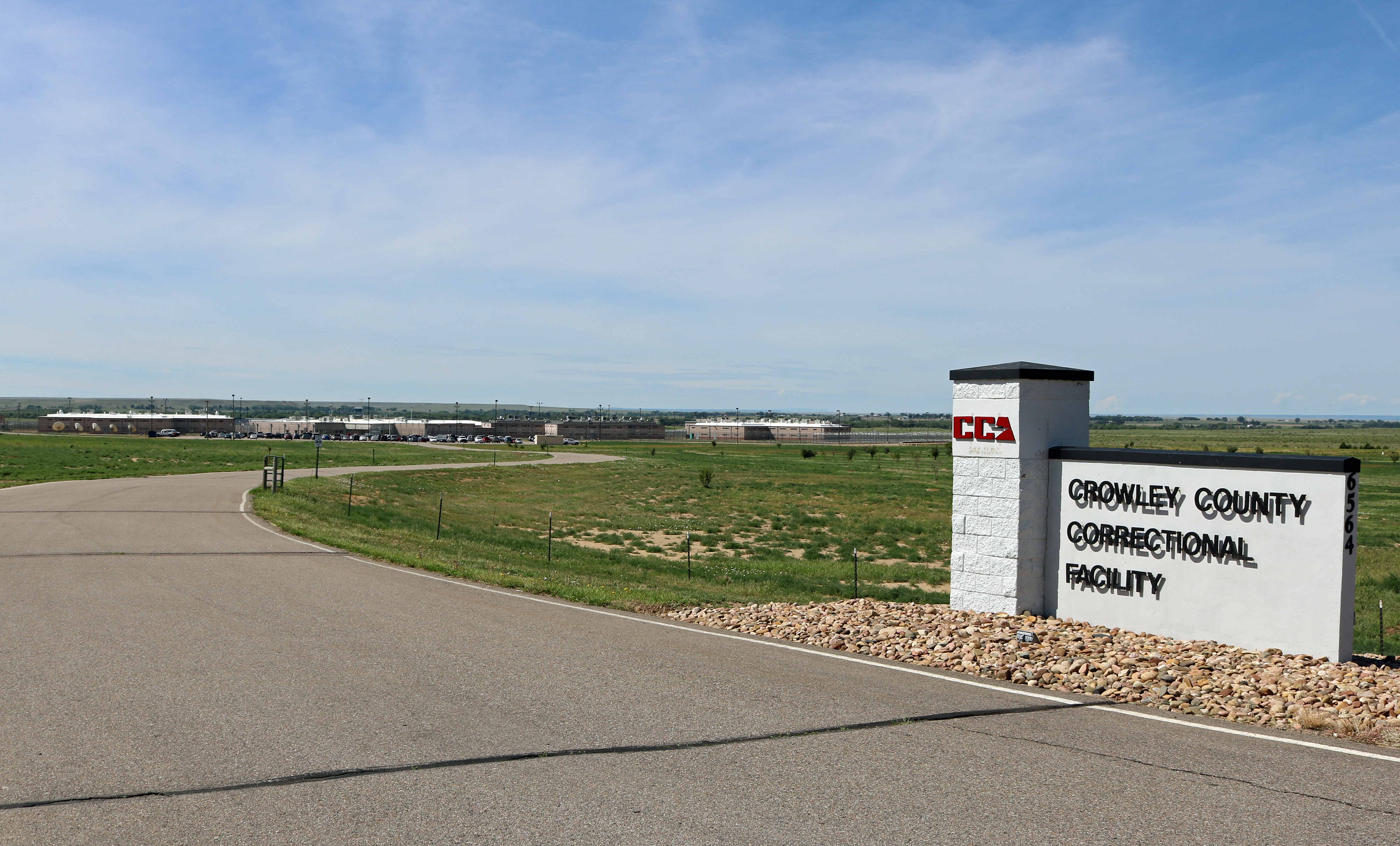 The Crowley County Correctional Facility, located at 6564 Highway 96 in Olney Springs, Colorado.